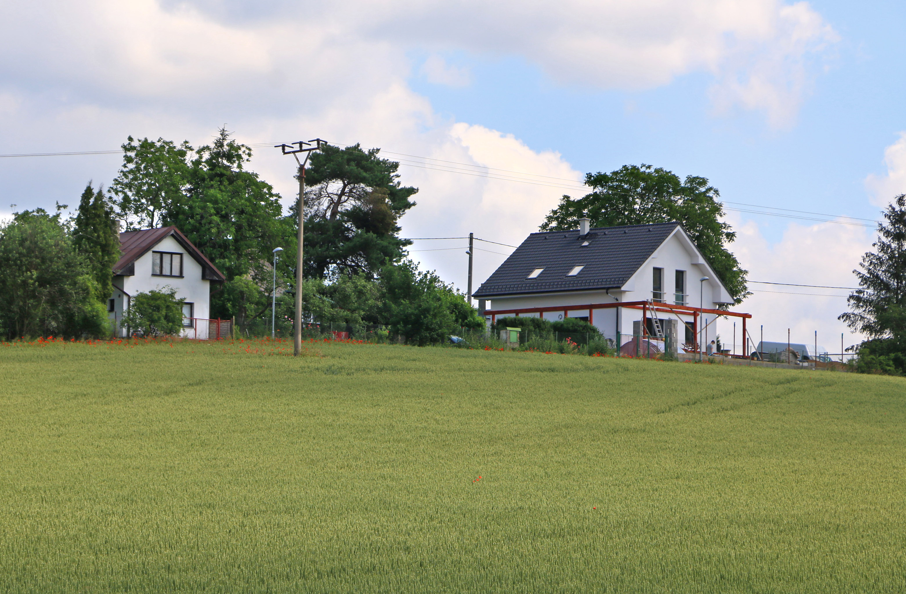 West part of Borka, part of Přestavlky u Čerčan, Czech Republic.